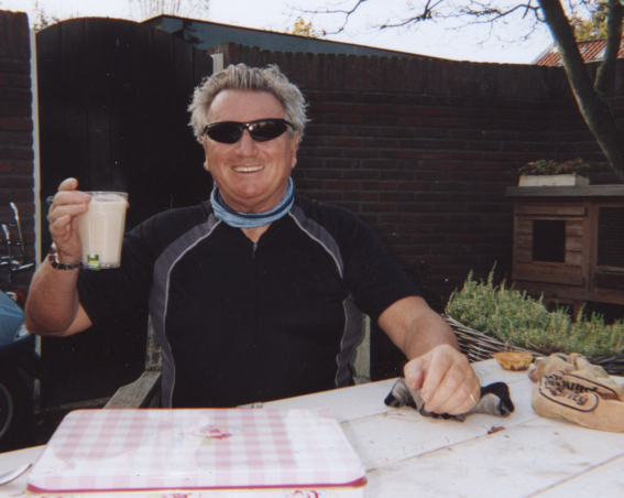 Jimm McCann in cycling gear, the Netherlands, 2010, aged 70